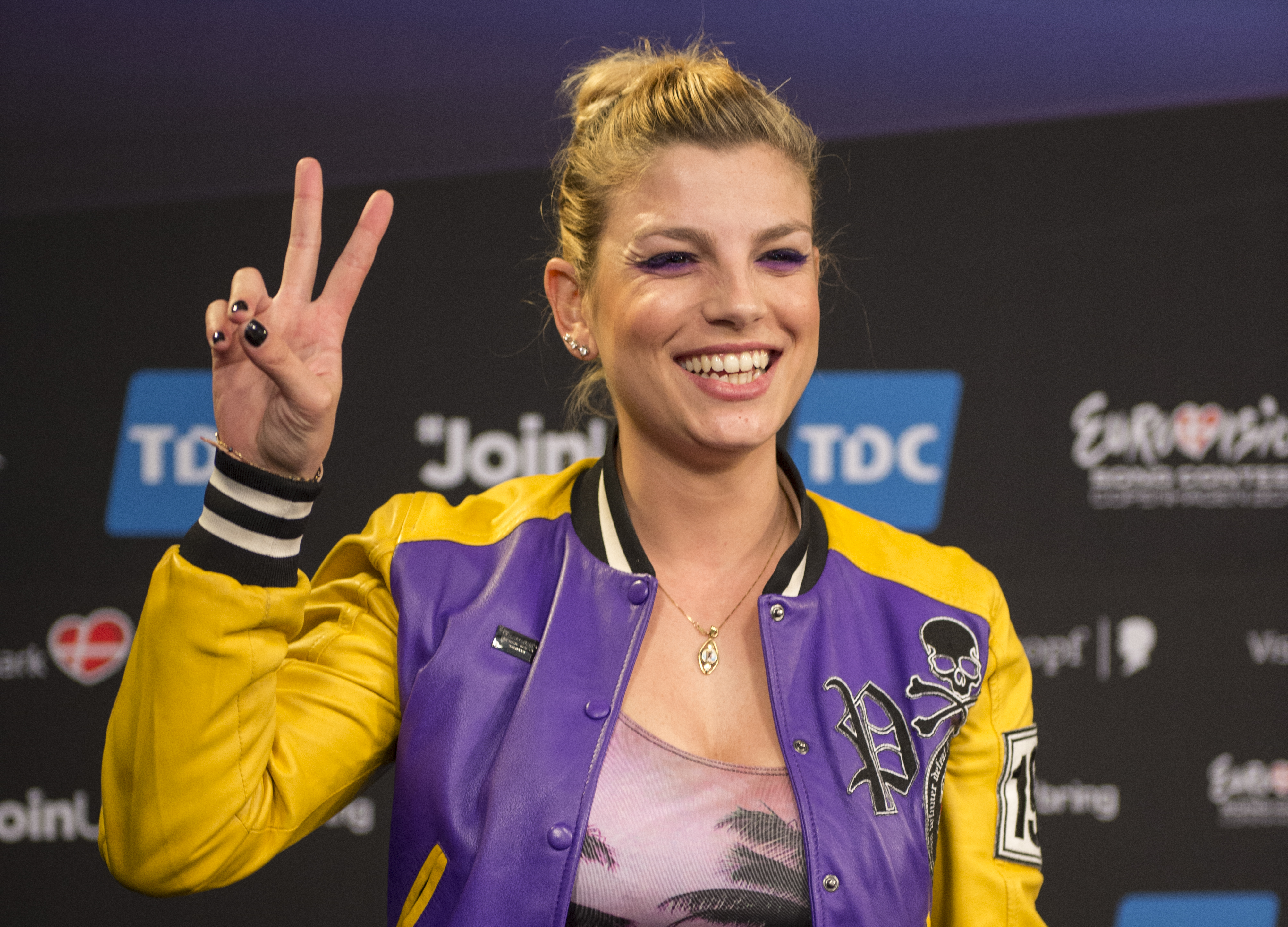 Emma Marrone at a Meet & Greet during the Eurovision Song Contest 2014 Copenhagen. (Help translate this text)